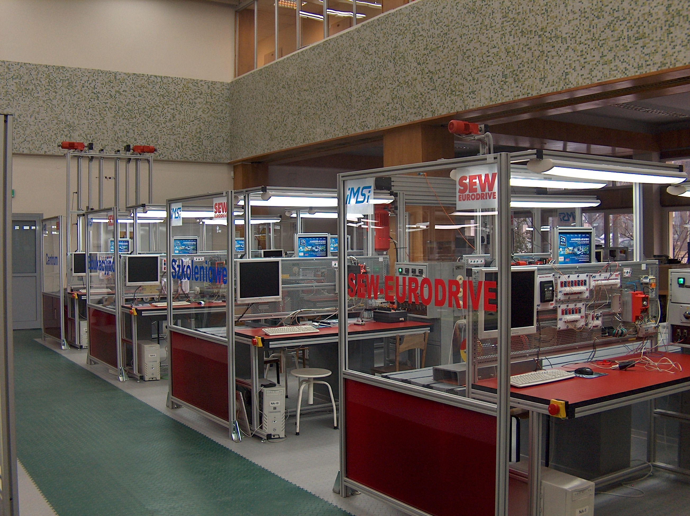 Mechatronic laboratory - Institute of Mechatronics and Information Systems, Lodz University of Technology, Poland